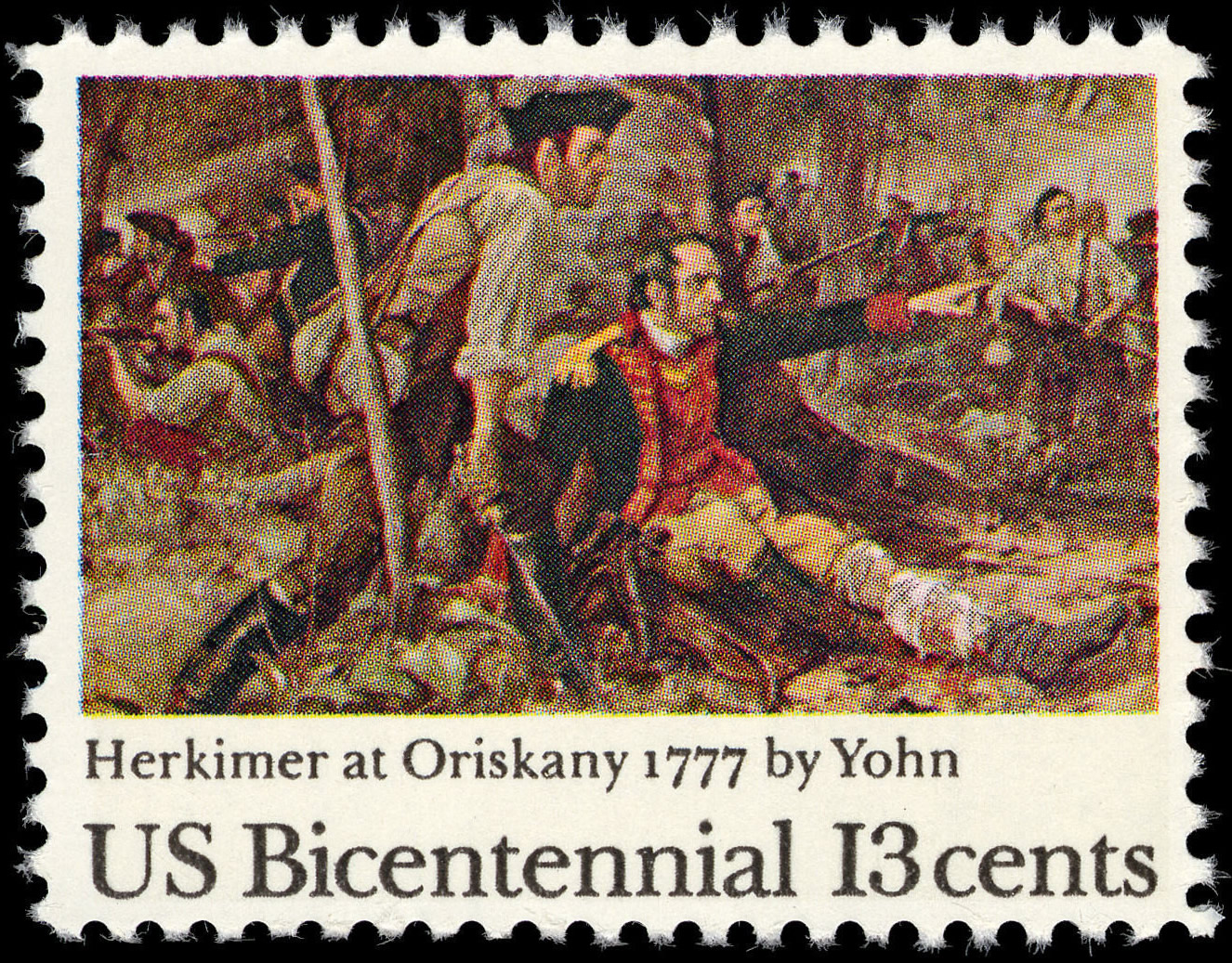 American Bicentennial Issue - Battle of Oriskany - Herkimer at Oriskany 1777 by Yohn - 13-cent 1977 U.S. stamp.